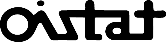 This is the logo of OISTAT